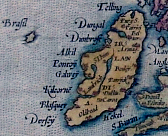 Ireland as depicted on the 1572 map of Europe by Abraham Ortelius. Interesting are the prominent featuring of St. Patrick's Purgatory and the curious island of Brasil.